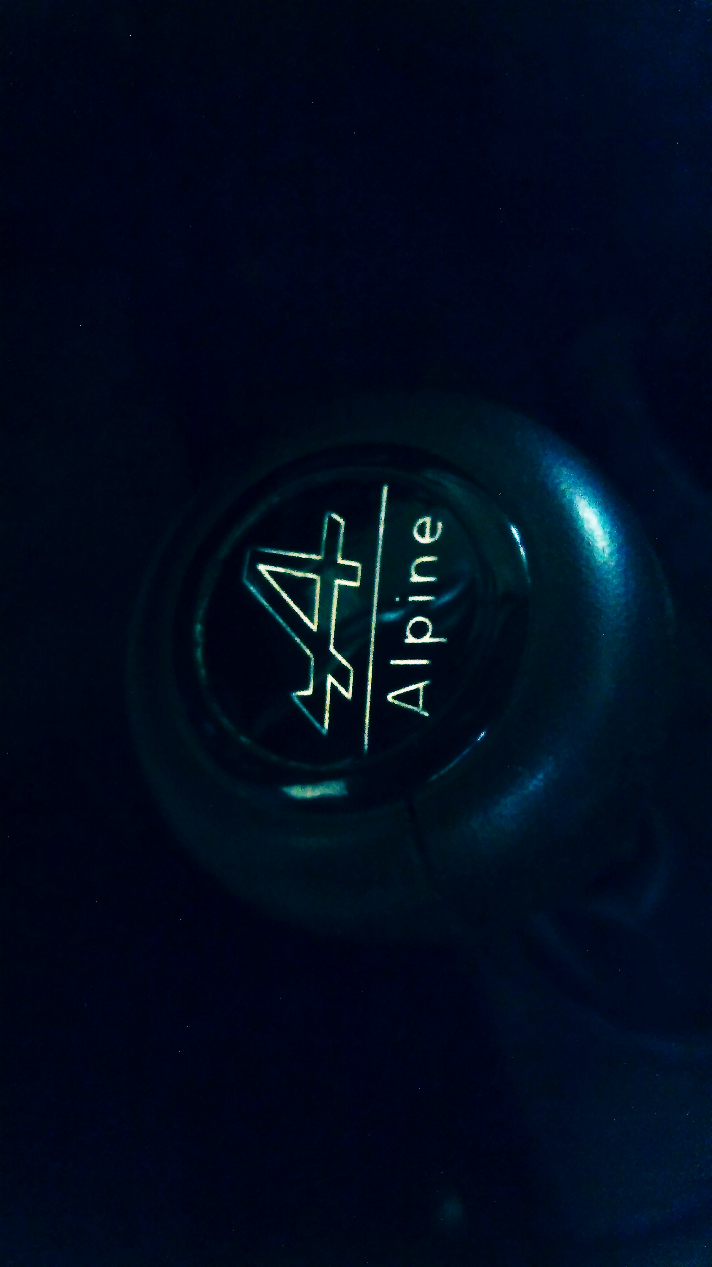 Gear lever of a French sports car Alpine A110.